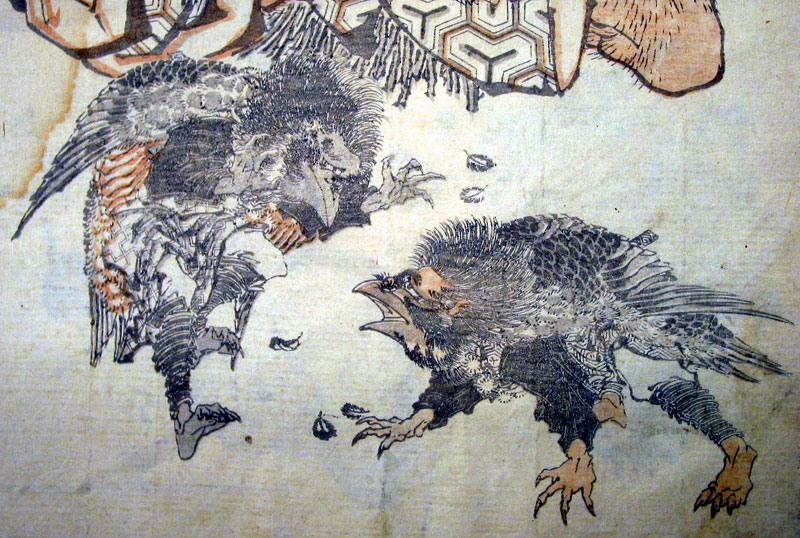 Hokusai, detail of a drawing of tengu fleeing Sakata Kintoki (the grown Kintarō).